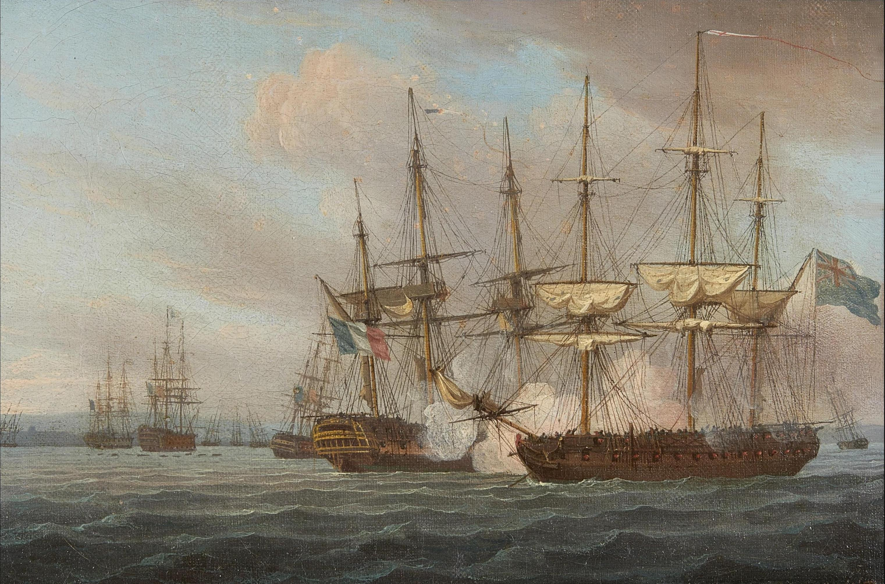 Destruction of the French Fleet in Basque Roads - April 12th 1809.